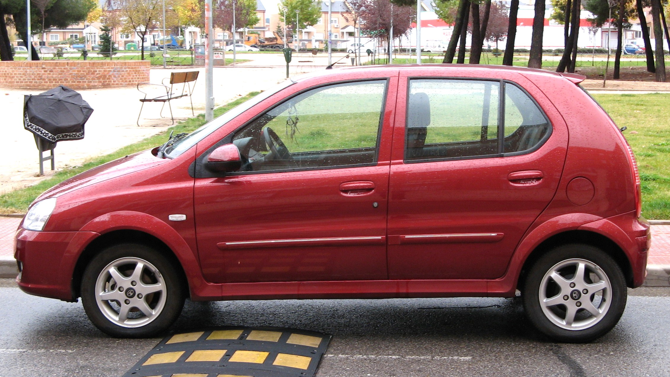 Tata Indica V2 Euro-Spec